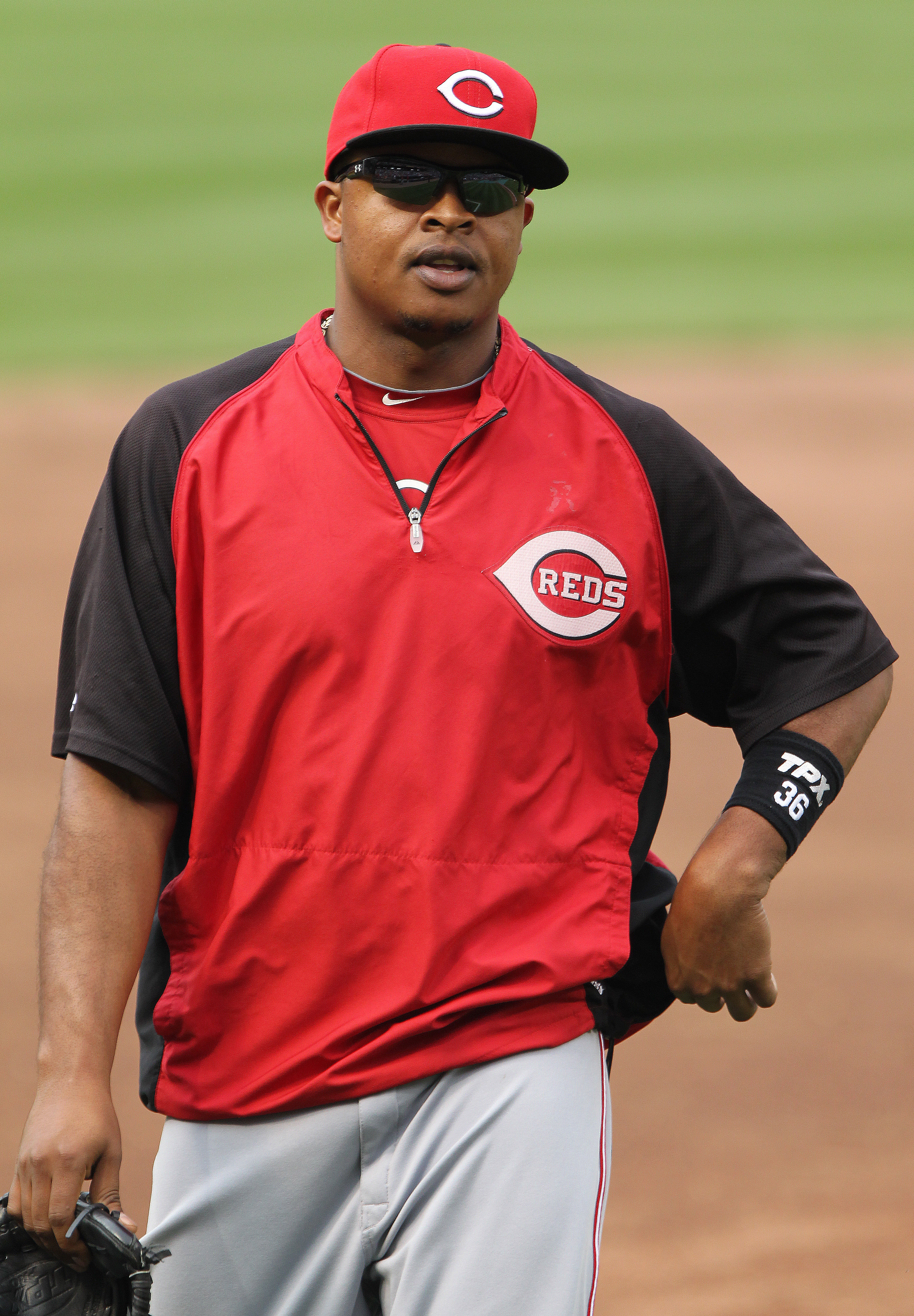 Reds at Orioles June 25, 2011.